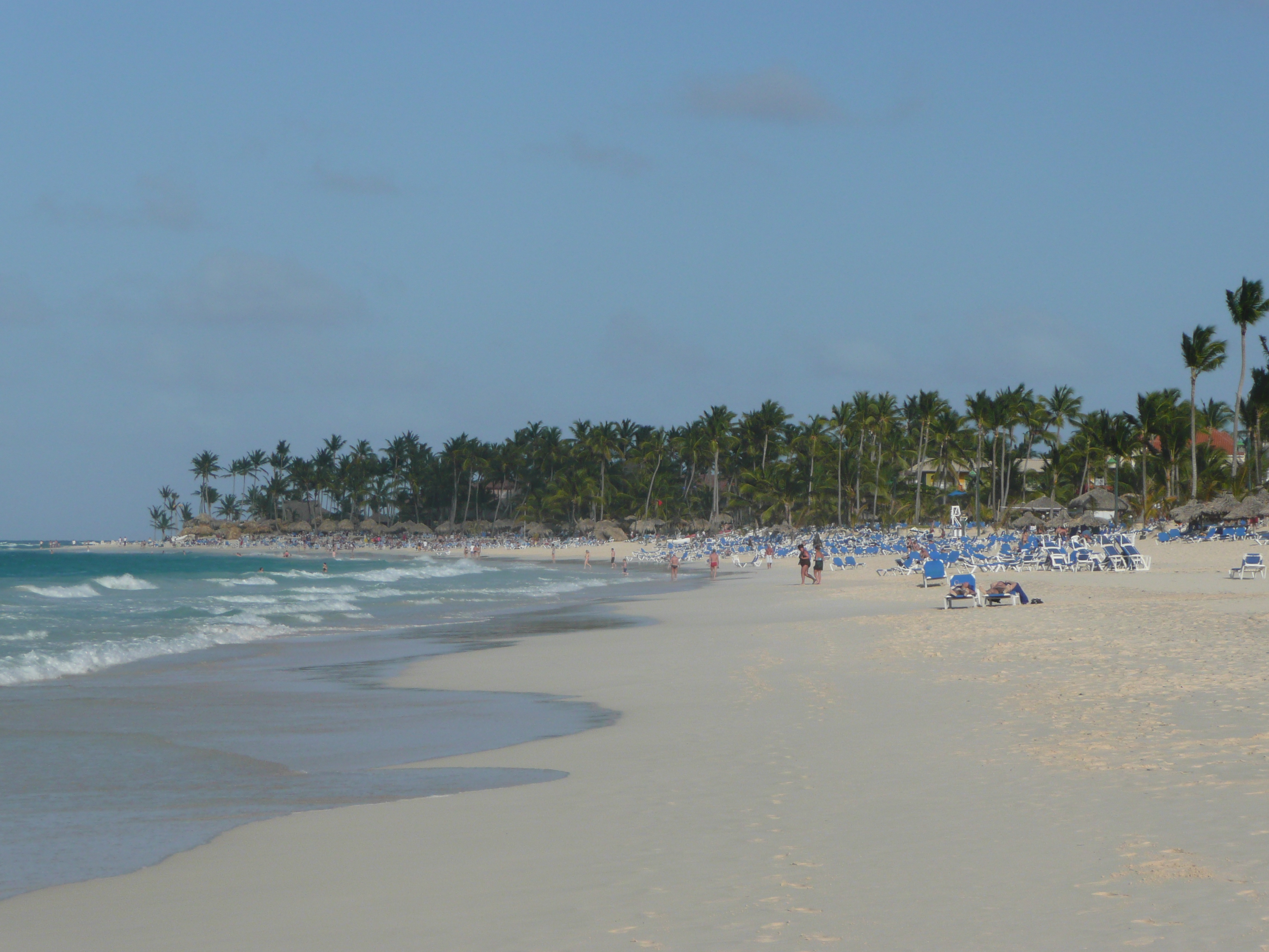 View along a beach facing southwards in Punta Cana, Dominican Republic.